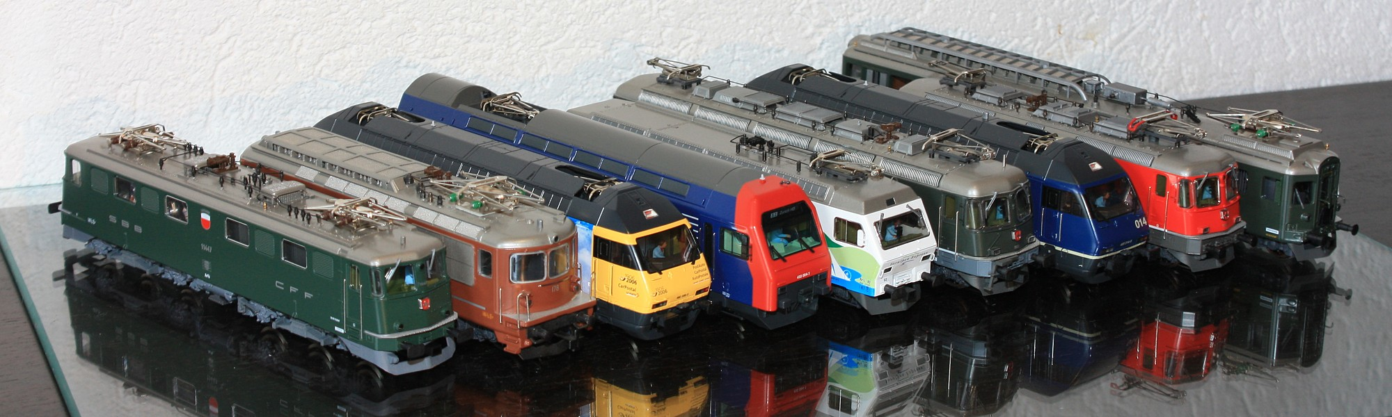 9 HAG models (new generation)